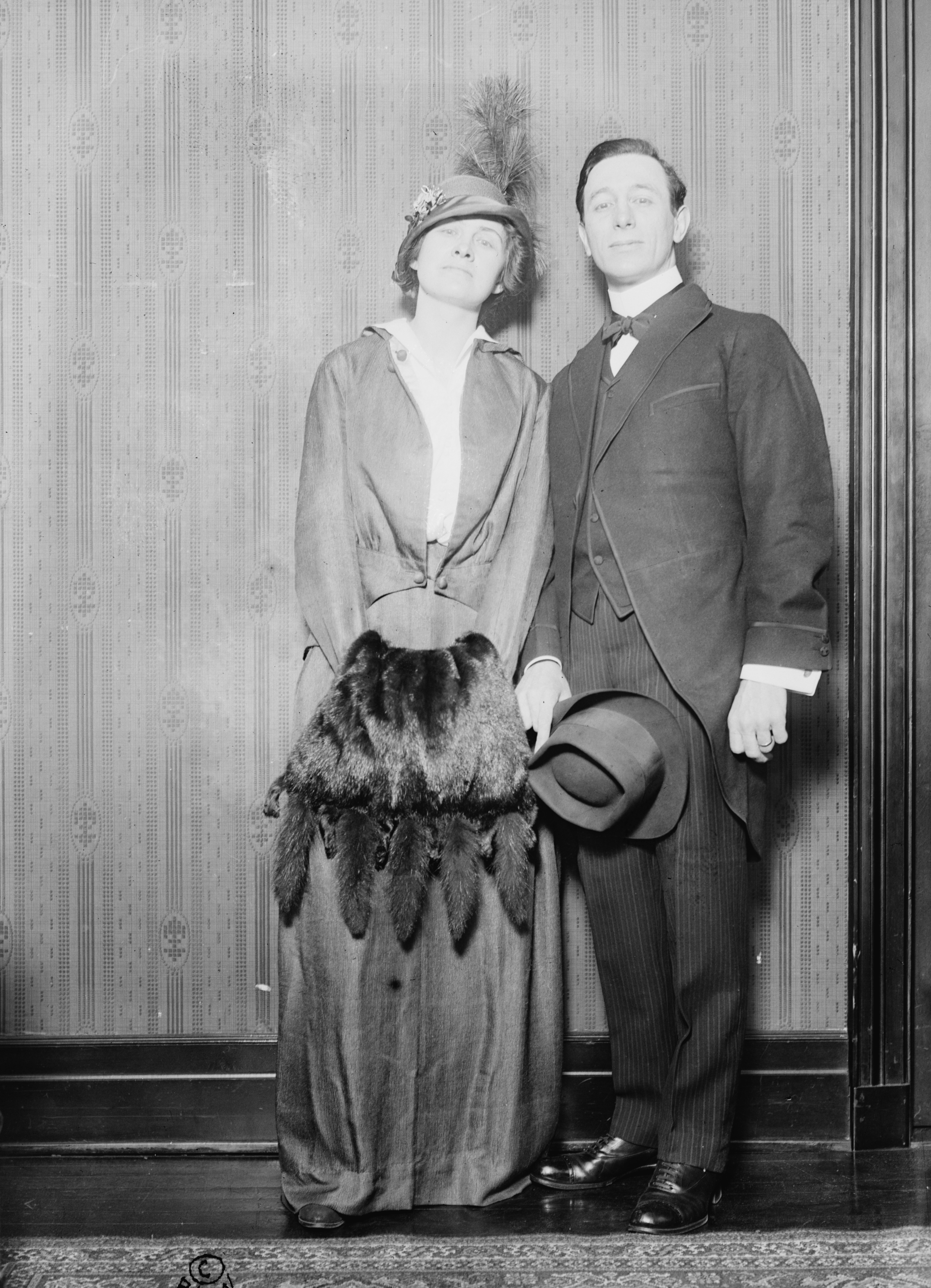 Barret O'Hara and wife (LOC) Bain News Service,, publisher. Barratt O'Hara and wife circa 1915 [between ca. 1910 and ca. 1915] 1 negative : glass ; 5 x 7 in. or smaller. Notes: Title from unverified data provided by the Bain News Service on the negatives or caption cards. Forms part of: George Grantham Bain Collection (Library of Congress). Format: Glass negatives. Repository: Library of Congress, Prints and Photographs Division, Washington, D.C. 20540 USA, General information about the Bain Collection is available at Persistent URL: Call Number: LC-B2- 3071-1 Comments and faves